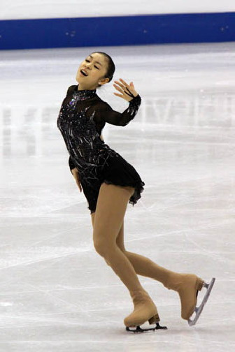 Kim Yu-Na (KOR) performs her short program at the 2009 World Figure Skating Championships.